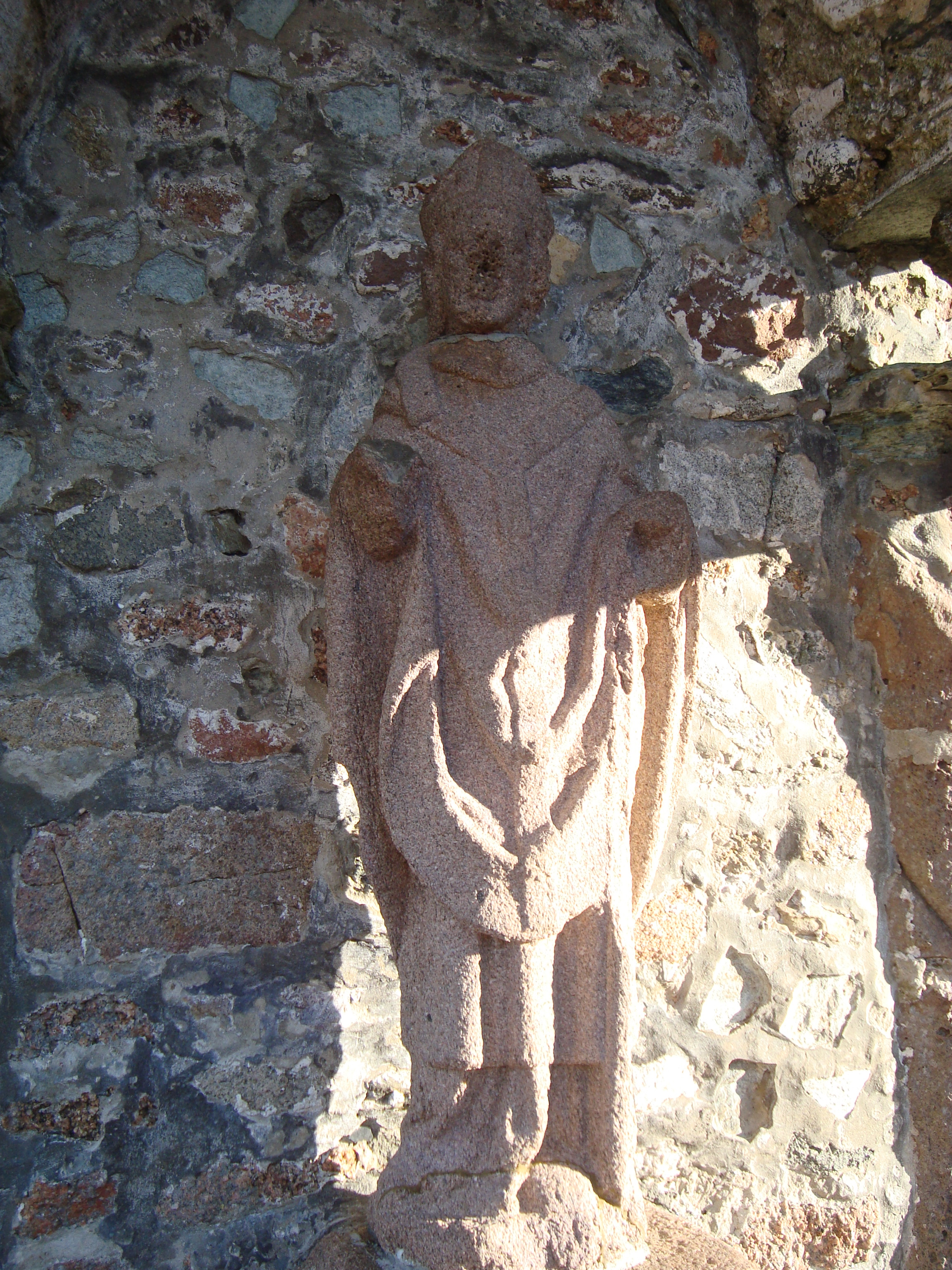 Saint Guirec's Statue in the oratory of Ploumanach at Perros-Guirec